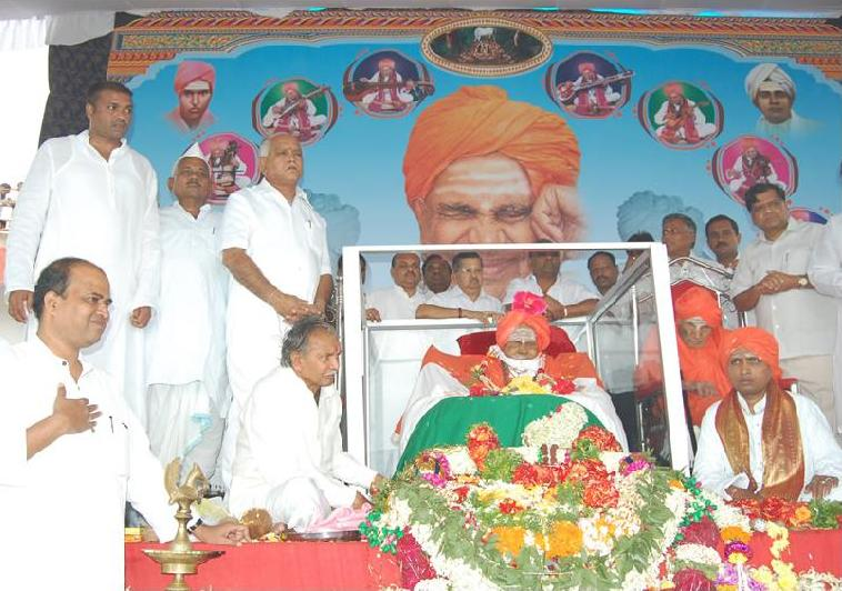 Sree Sree Shivakumara Swamiji, Chief Minister B. S. Yeddyurappa,home minister Dr V.S. Acharya, ministers Basavaraj Bommai, Jagdish Shettar & B. Sriramulu paid homage Puttaraj Gawai'ji